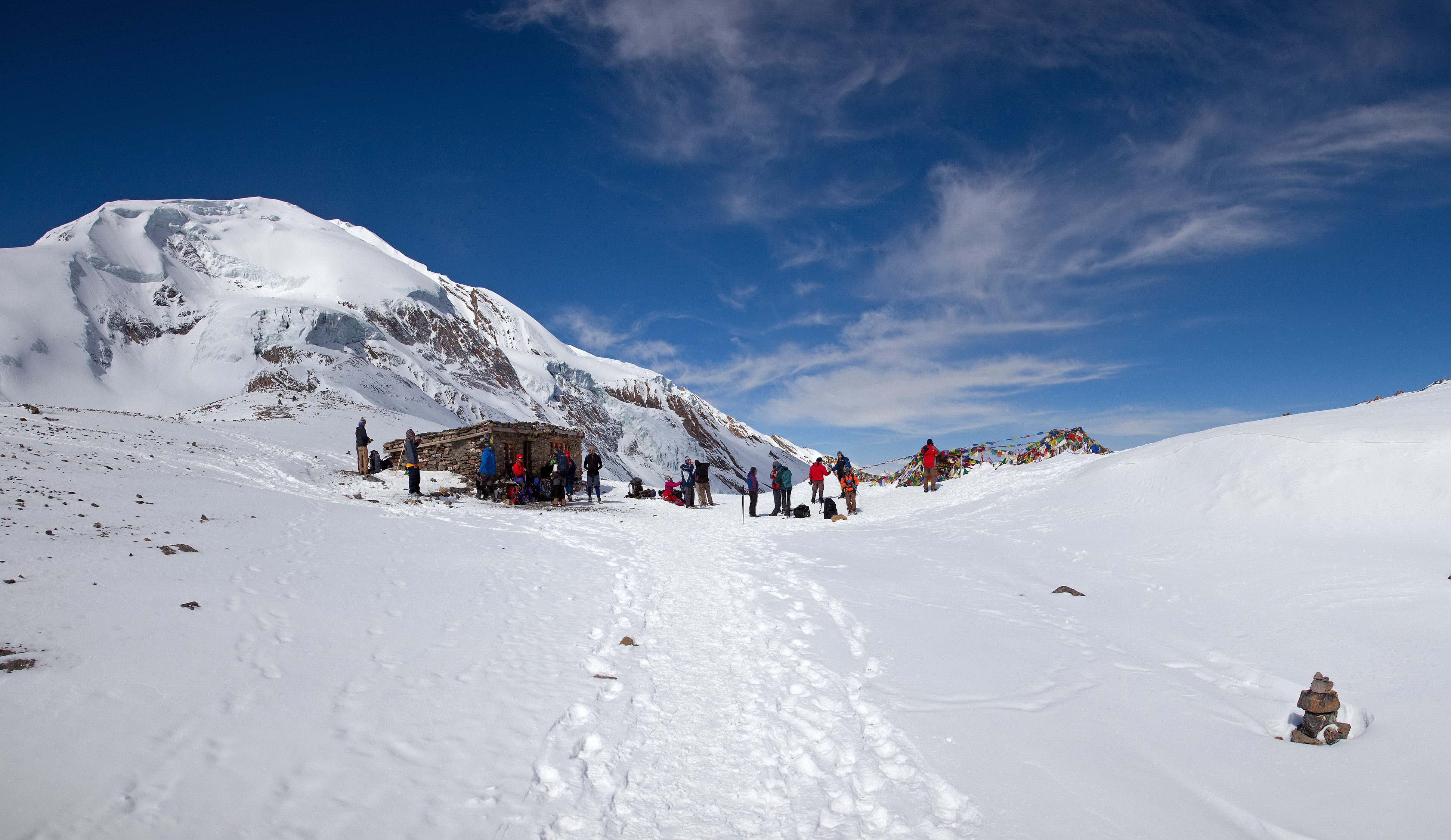 Thorong La pass (5416 m) in Nepal, on the left there are teahouse and Thorong Ri peak (6144 m)